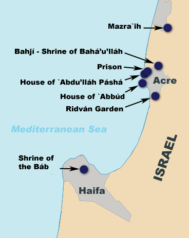 Baha'i Holy places in Israel